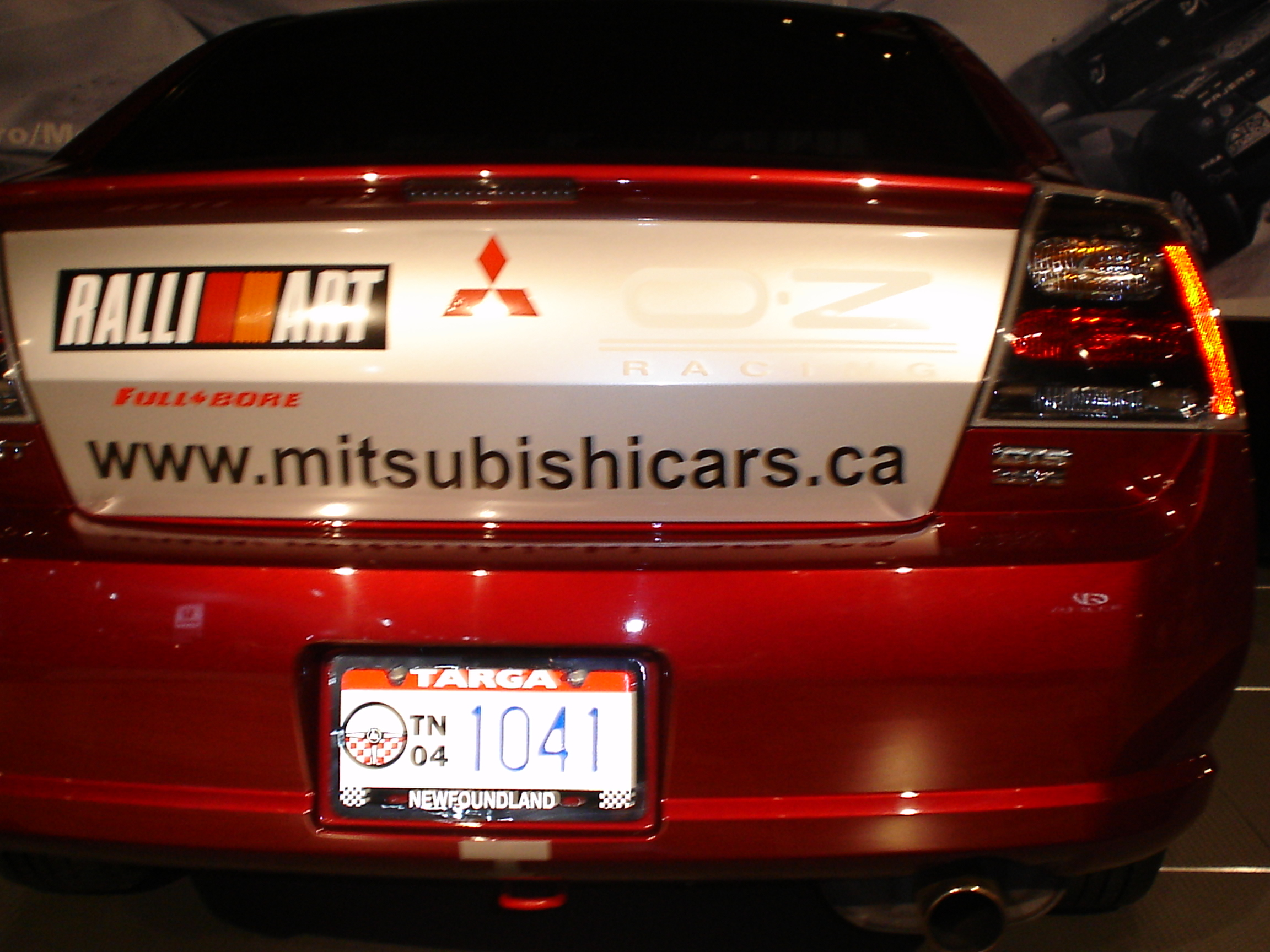 Mitsubishi on display at the 2005 Canadian International Autoshow in Toronto with a Targa Newfoundland plate.